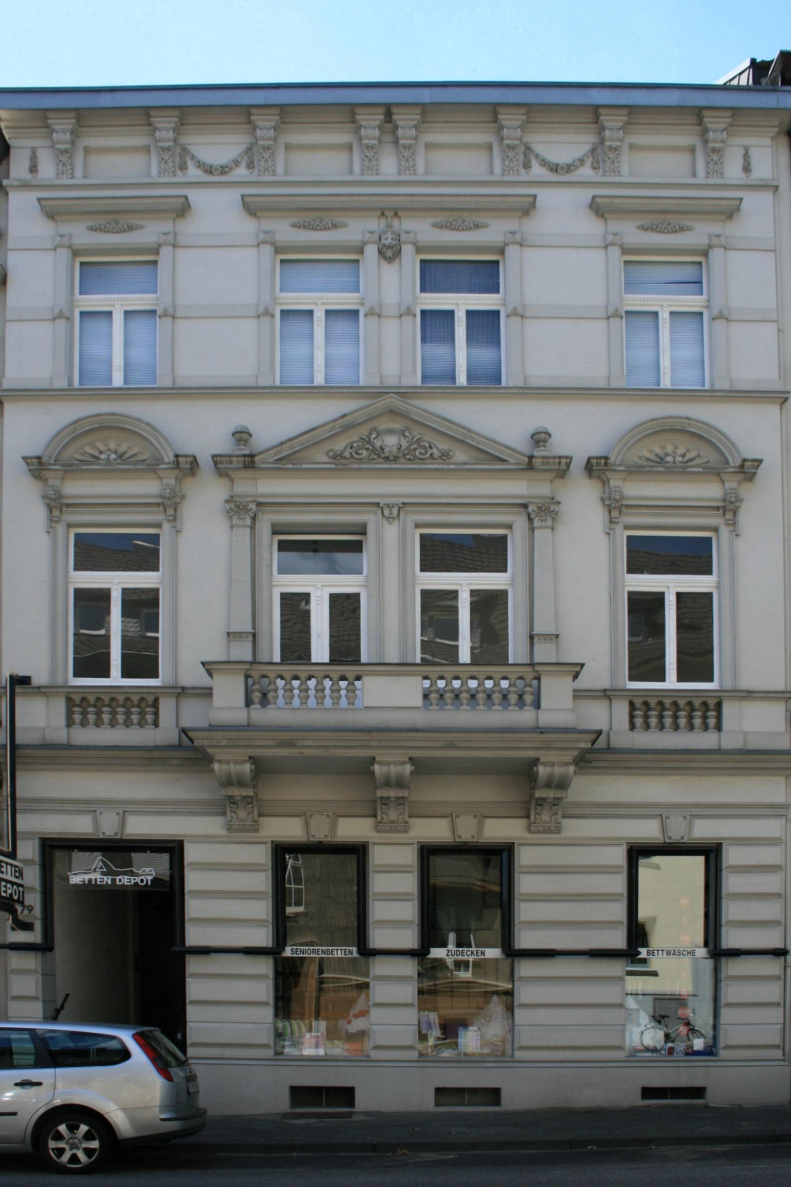 Cultural heritage monument No. Sch 048 in Mönchengladbach